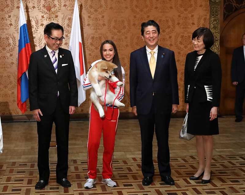 Olympic figure skating champion Alina Zagitova receiving a Japanese Akita dog in a ceremony attended by prime minister Shinzō Abe